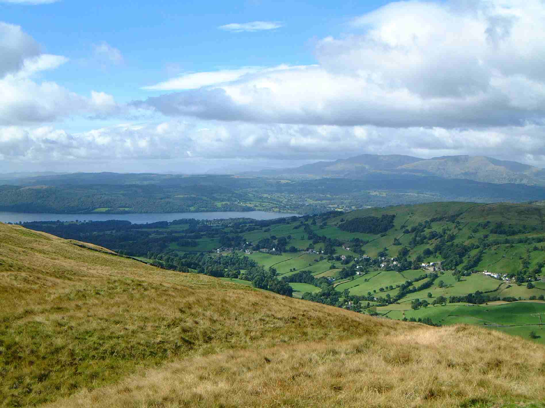 Sour Howes with Windermere beyond from Sallows. Personal photograph taken by Mick Knapton